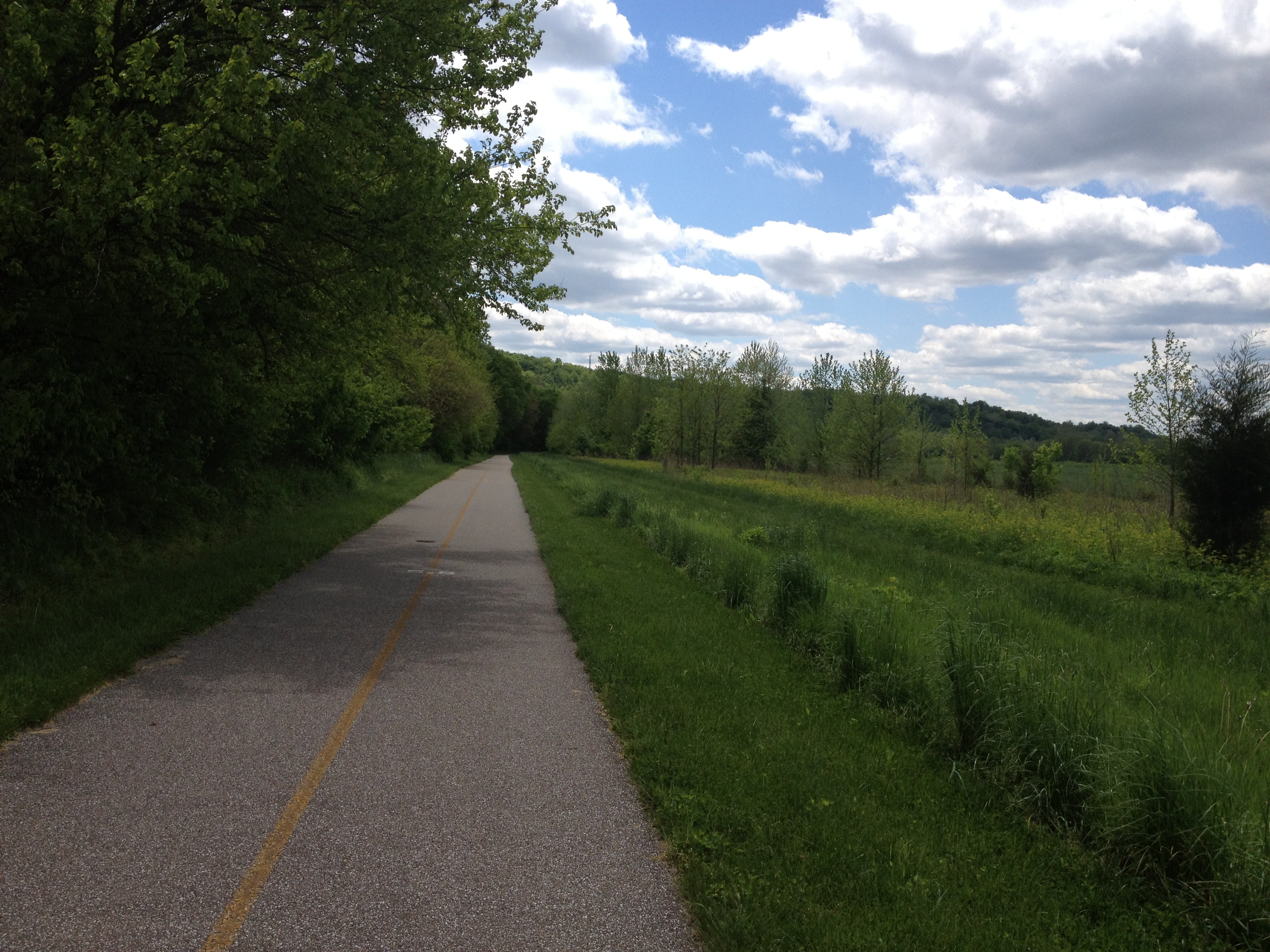 A section of the 7.8-mile paved Shaker Trace Trail in Miami Whitewater Forest